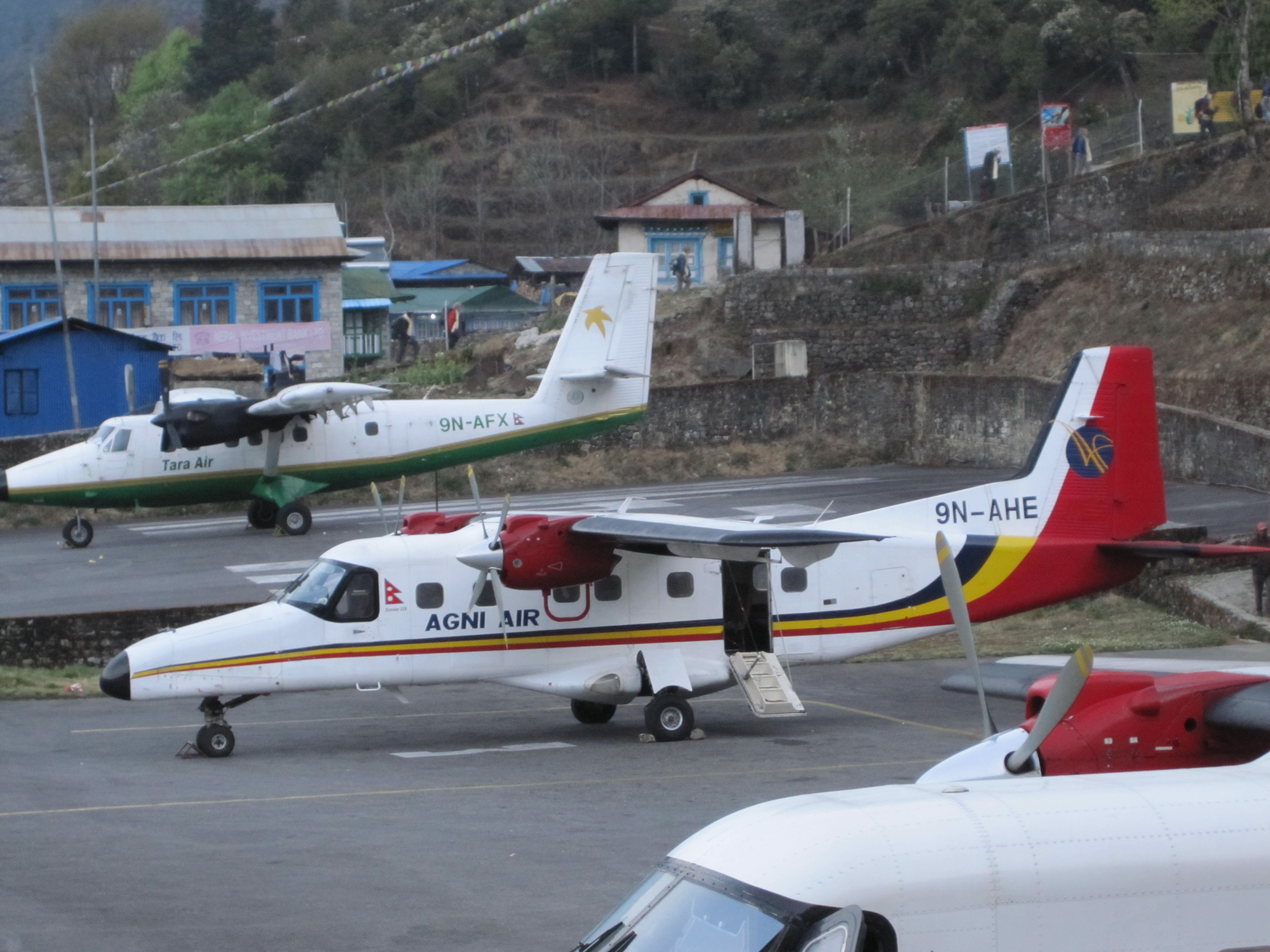 The 9N-AHE aircraft, referenced in Agni_Air_Flight_101